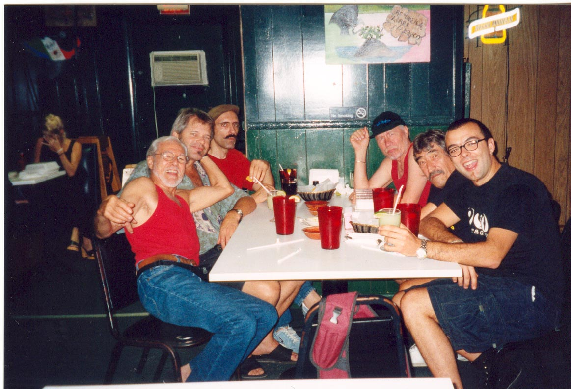 From left: Bunk Gardner, Ener Bladezipper, Sandro Oliva, Don Preston, Jimmy Carl Black and Stefano Baldasseroni